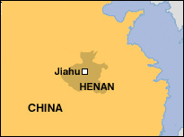 Jiahu City Ubication